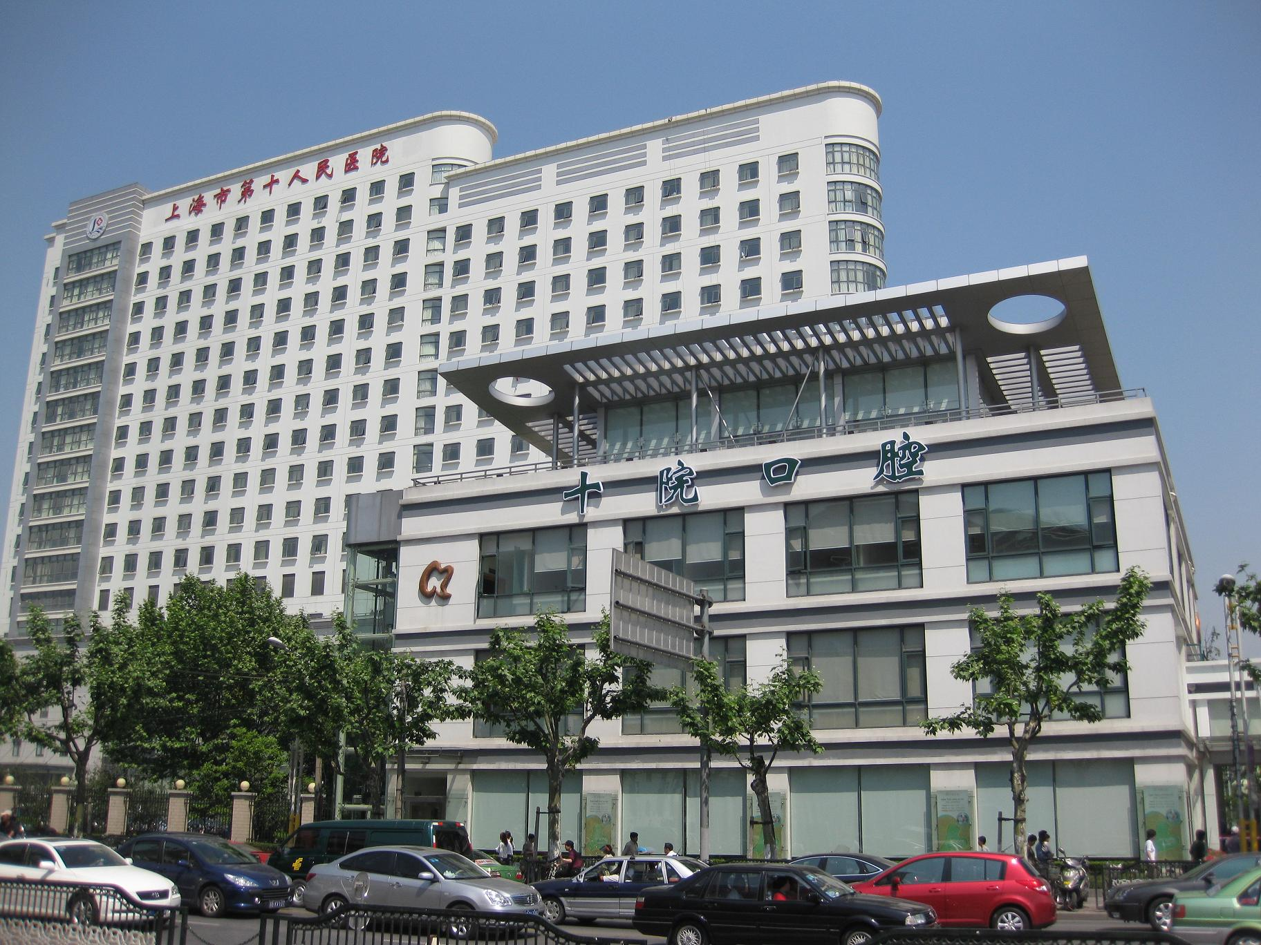 Shanghai Tenth People's Hospital